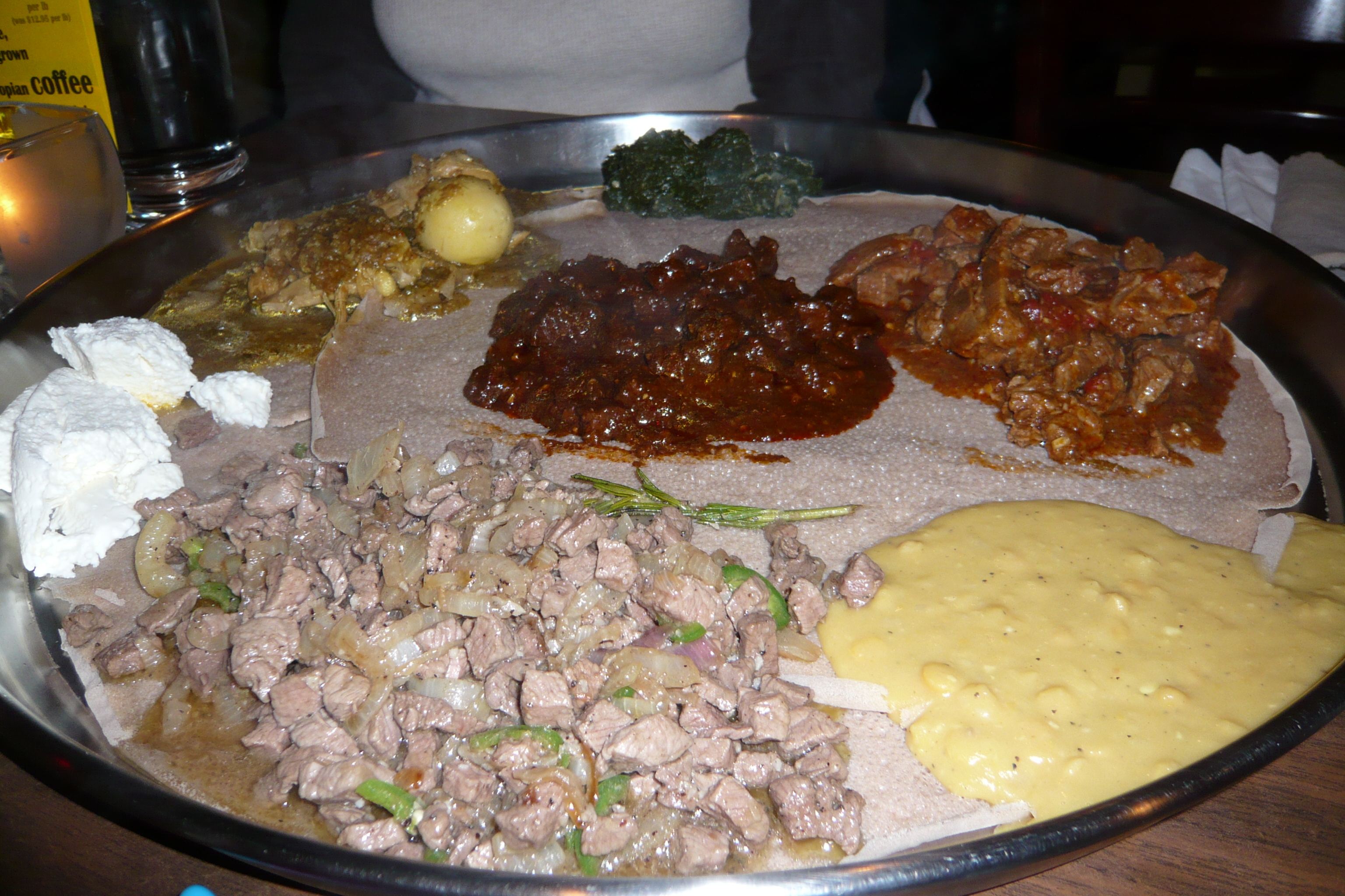 A table setting for an Ethiopian meal.